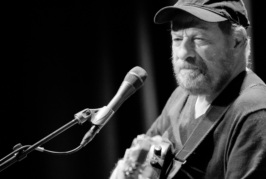 João Bosco Quartet at Cosmopolite. The concert took place on 11. May 2019 in Oslo. Lineup:Joao Bosco (guitar and vocal)Ricardo Silveira (guitar)Kiko Freitas (drums)Guto Wirtti (bass guitar)